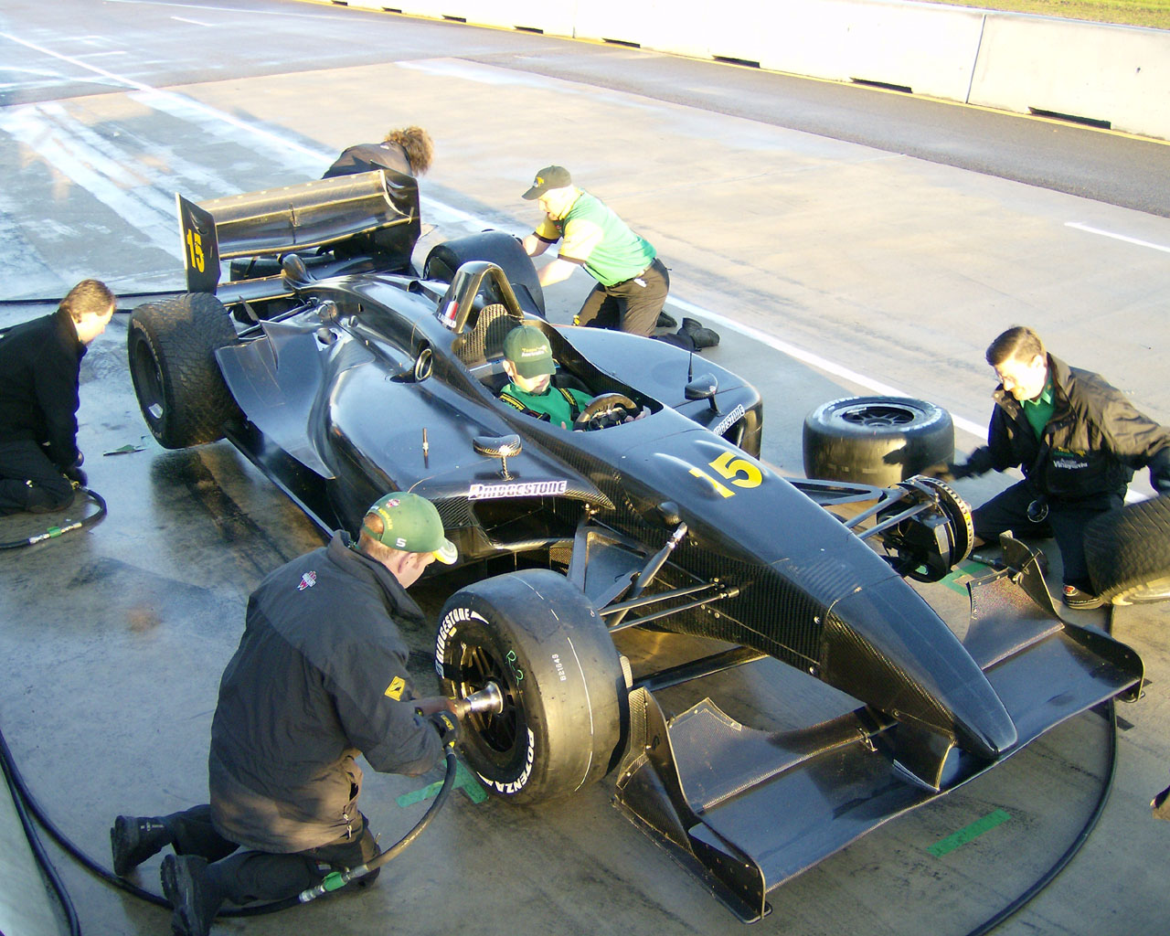 Unpainted Panoz DP01 Champ Car.